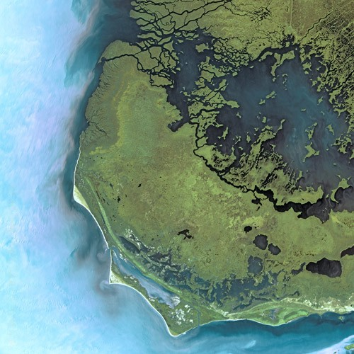 Everglades National Park by SPOT Satellite